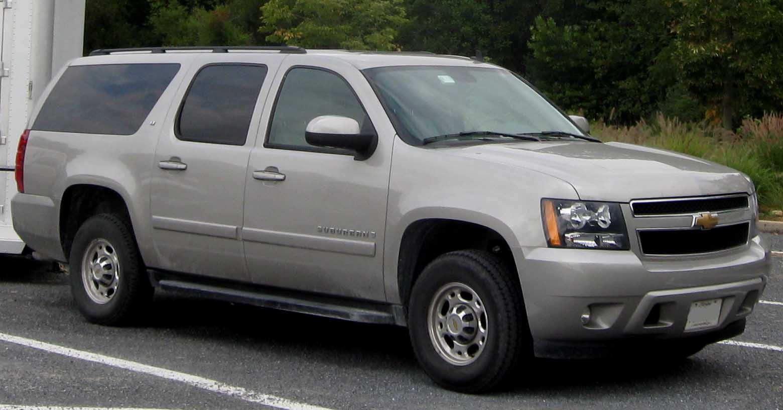 2007-2009 Chevrolet Suburban 2500 photographed in Highland, Maryland